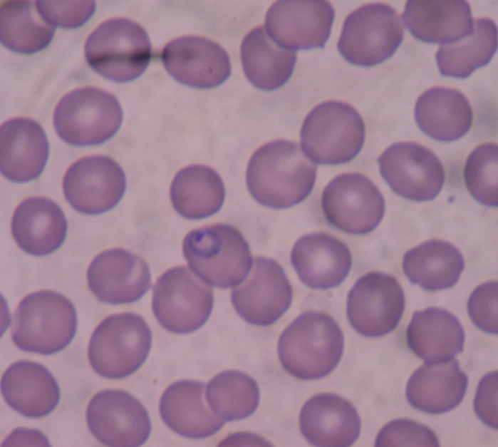 Plasmodium sp, ring stage, blood smear of human subject (40x).